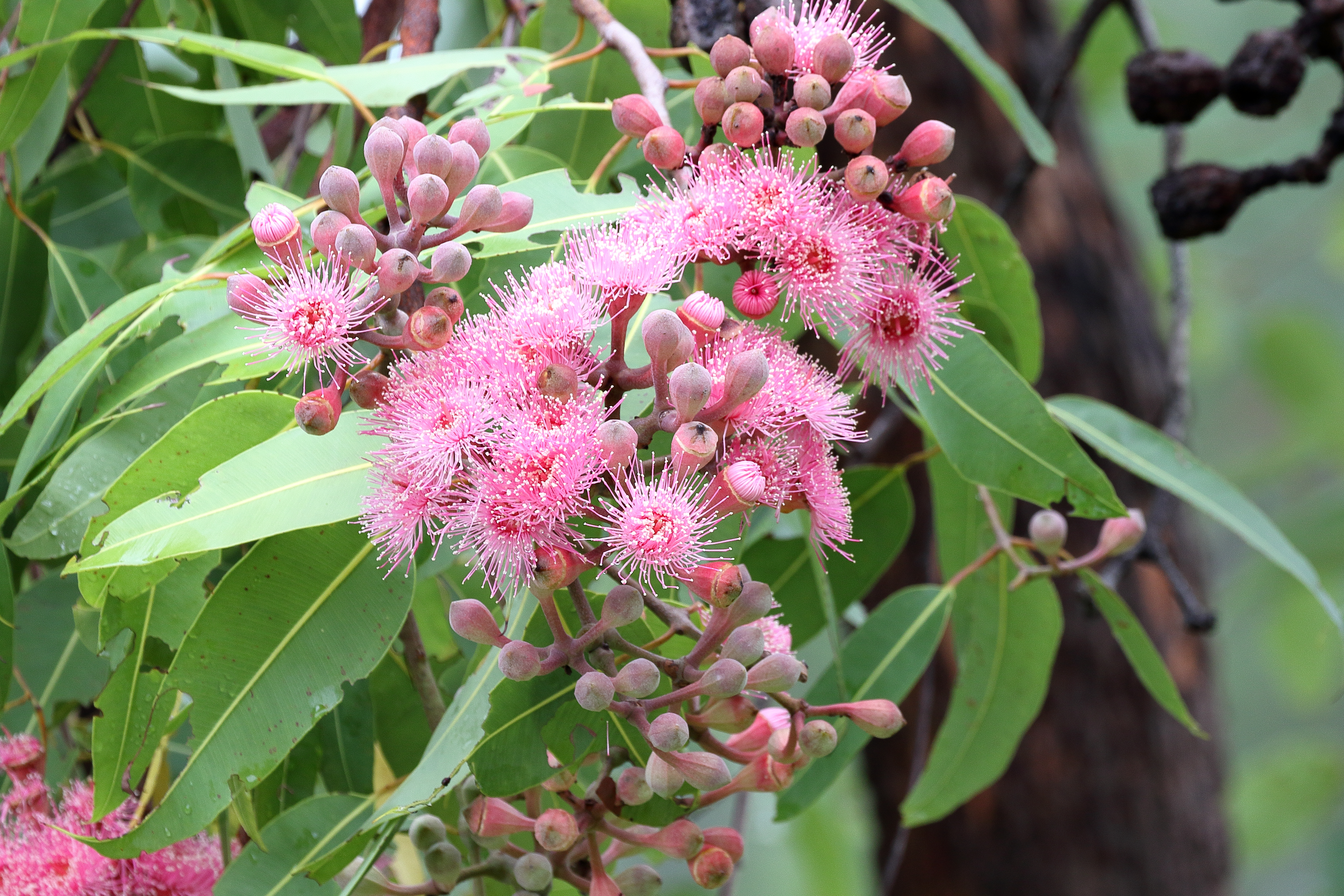 Swamp Bloodwood (Corymbia ptychocarpa) in flower at Mareeba, Queensland, Australia.